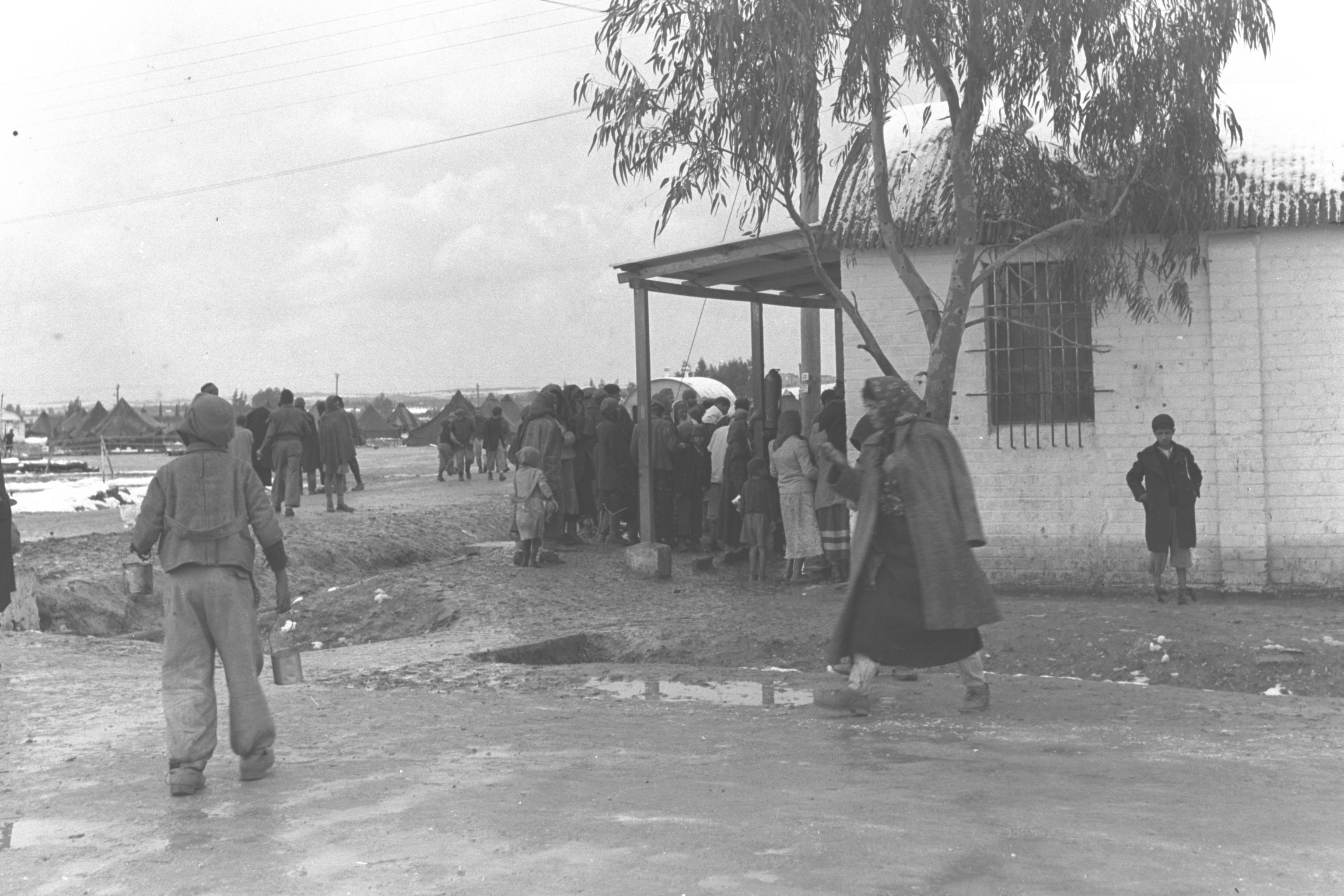 Original Description: PARENTS WAIT OUTSIDE CAMP HOSPITAL TO VISIT THEIR INFANTS SHELTERED DURING FREEZING WEATHER, ROSH HA'AYIN. YEMENITE IMMIGRANTS.